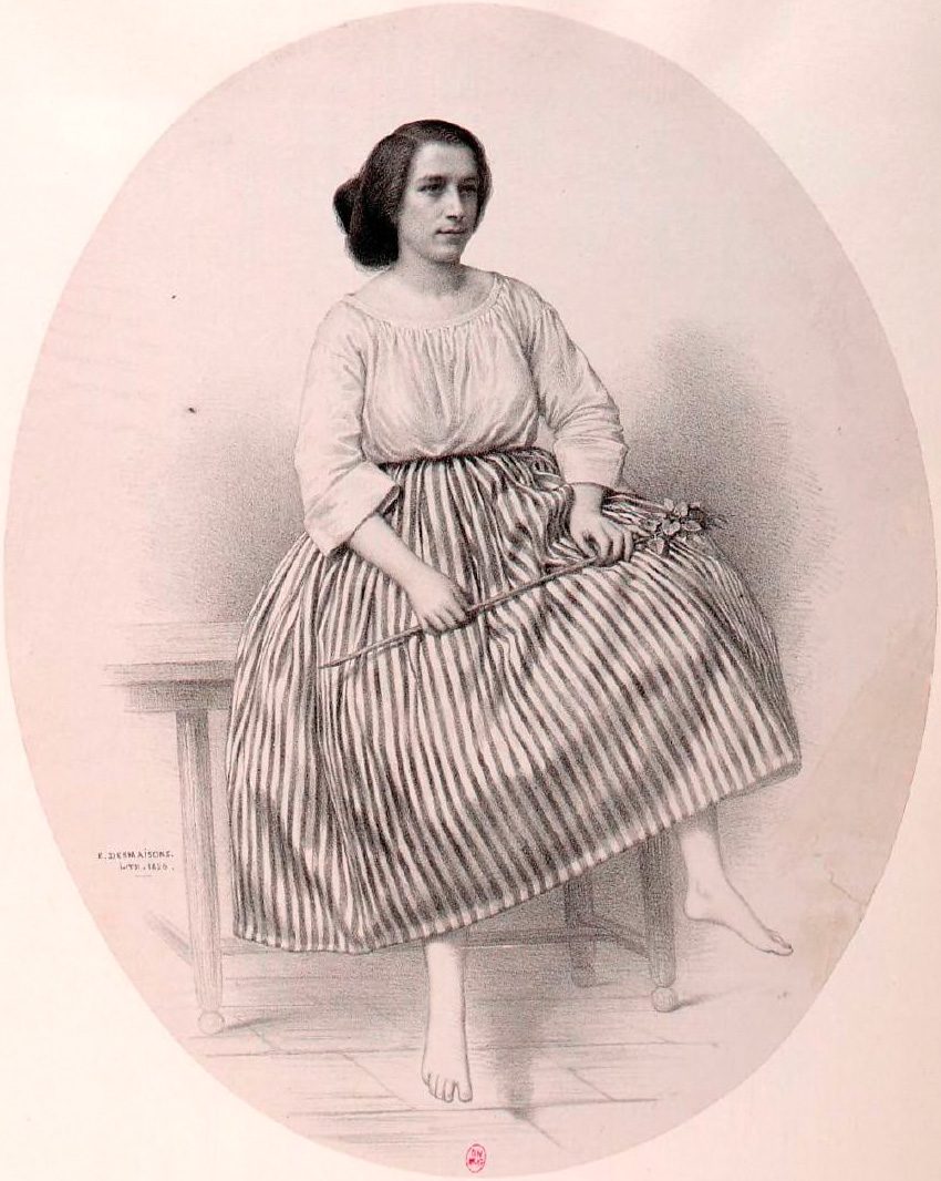 Juliette Borghèse in the role of Rose Friquet in Aimé Maillart's Les dragons de Villars for the premiere on 19 September 1856 at the Théâtre Lyrique in Paris